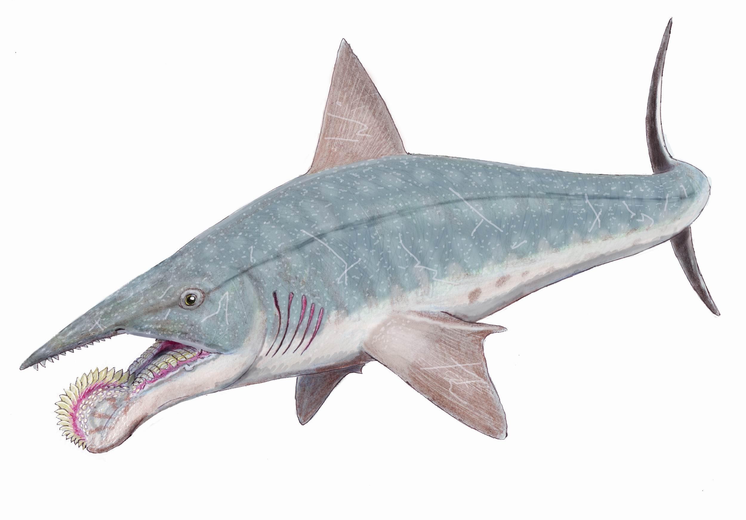 Helicoprion bessonovi - edestid "shark" from Early Permian (Artinskian) of Ural region. Highly hypothetical reconstruction.